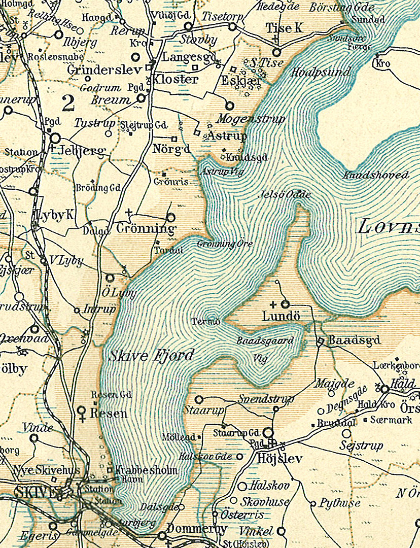 Map of the northwestern part of Viborg County in Denmark